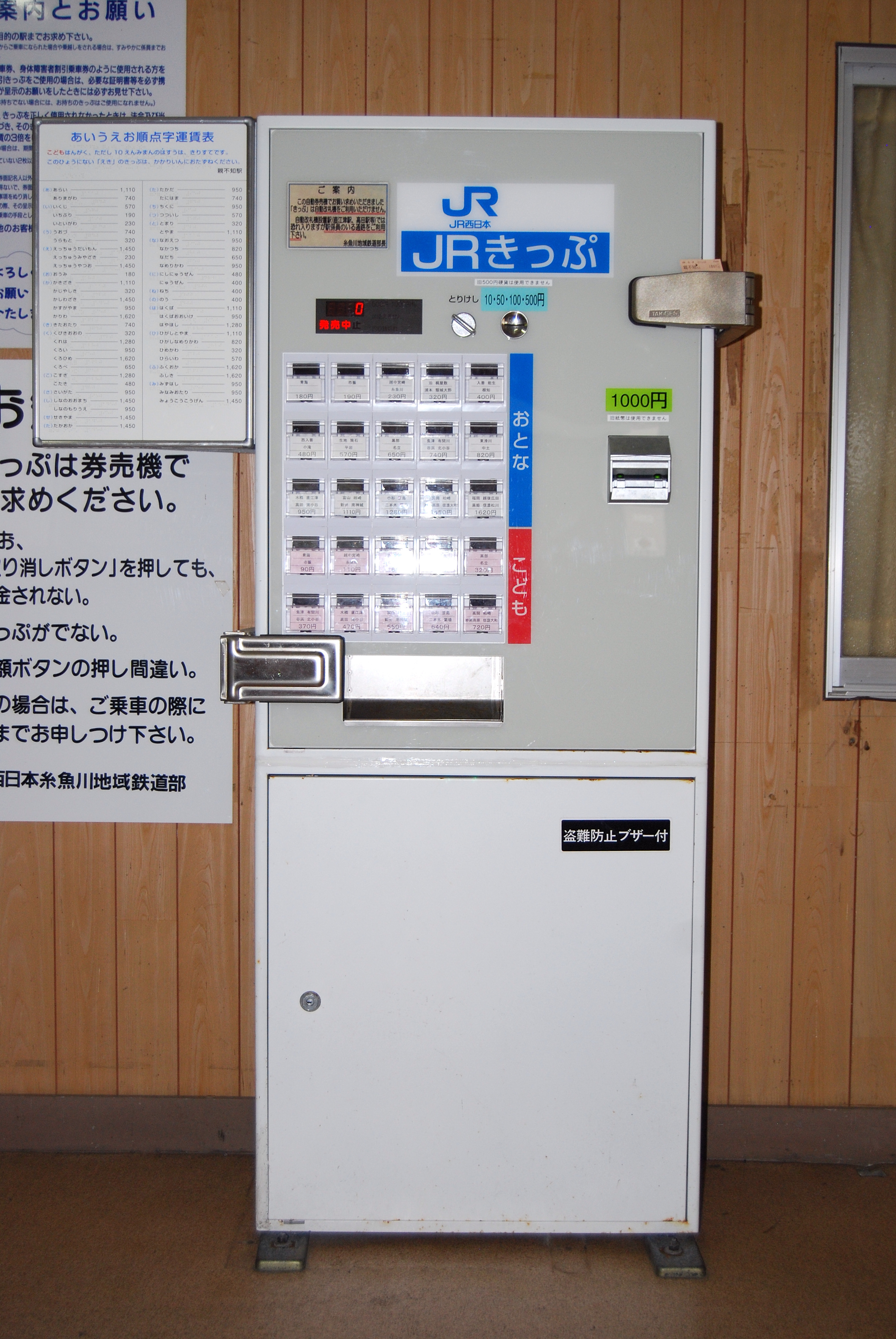 Ticket machine for unmanned train stations installed at Oyashirazu Station on the Hokuriku Main Line